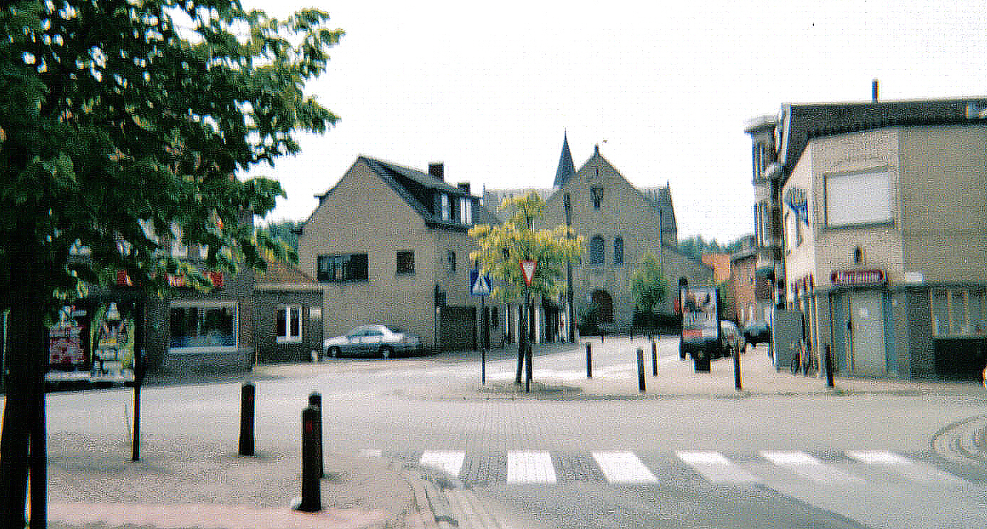 The village square of Nederename, a submunicipality of Oudenaarde, Belgium.